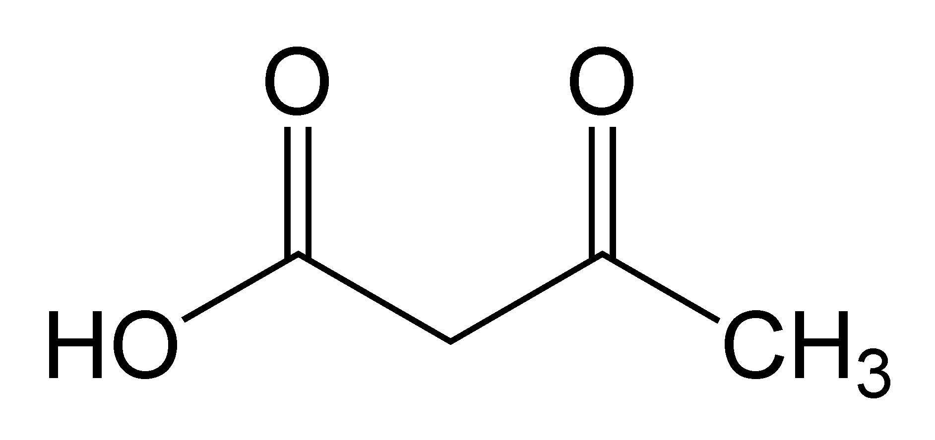 Description: Chemical structure of acetoacetic acid. Author, date of creation: selfmade by Rune Welsh, November 1, en:2005 Source: - Copyright: Released to the Public Domain Comments: high-resolution b/w PNG; ChemDraw / Irfanview.